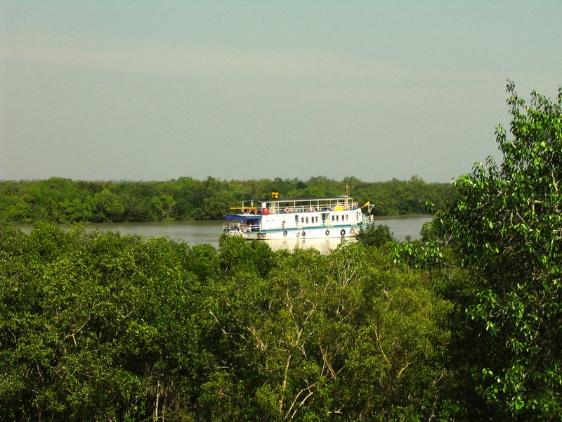 View of Sundarbans in West Bengal (India)